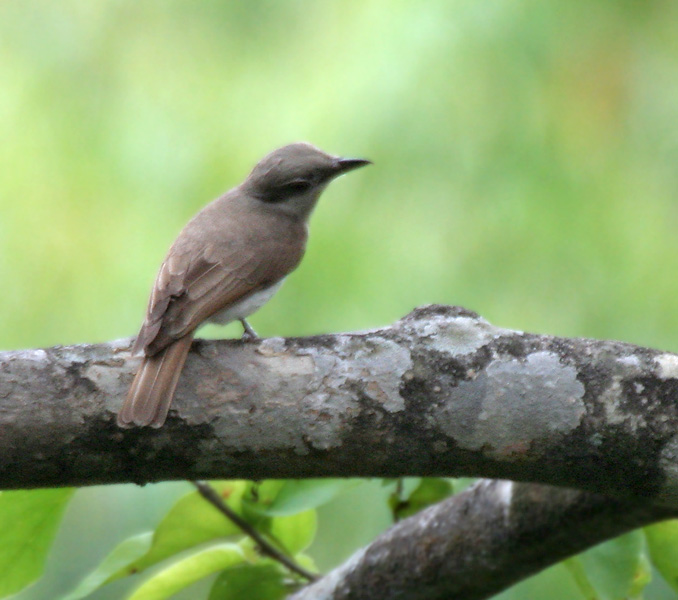 Large Woodshrike Tephrodornis virgatus at Jayanti in Buxa Tiger Reserve in Jalpaiguri district of West Bengal, India.